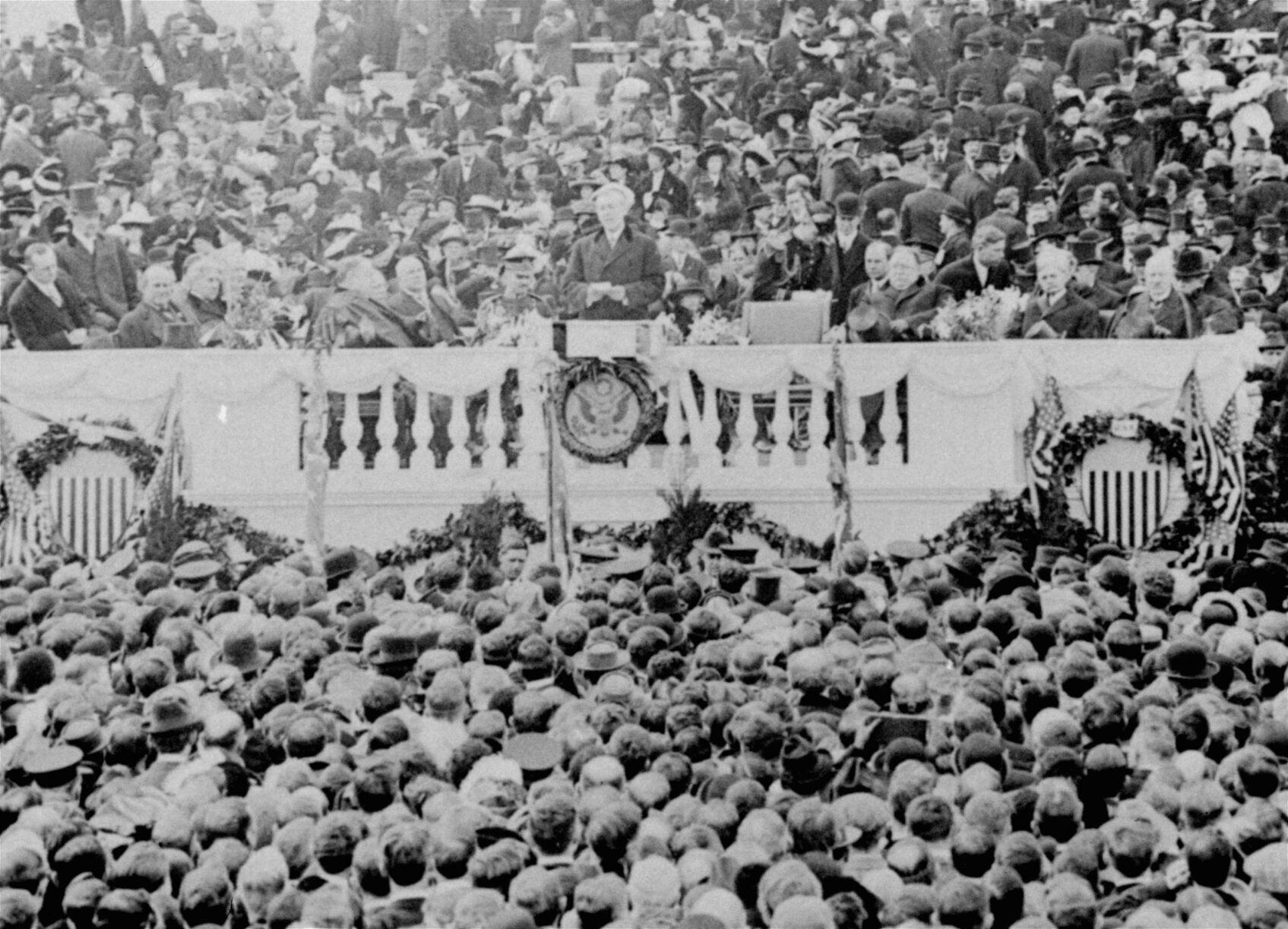 Woodrow Wilson at his inauguration for his second term as U.S. President